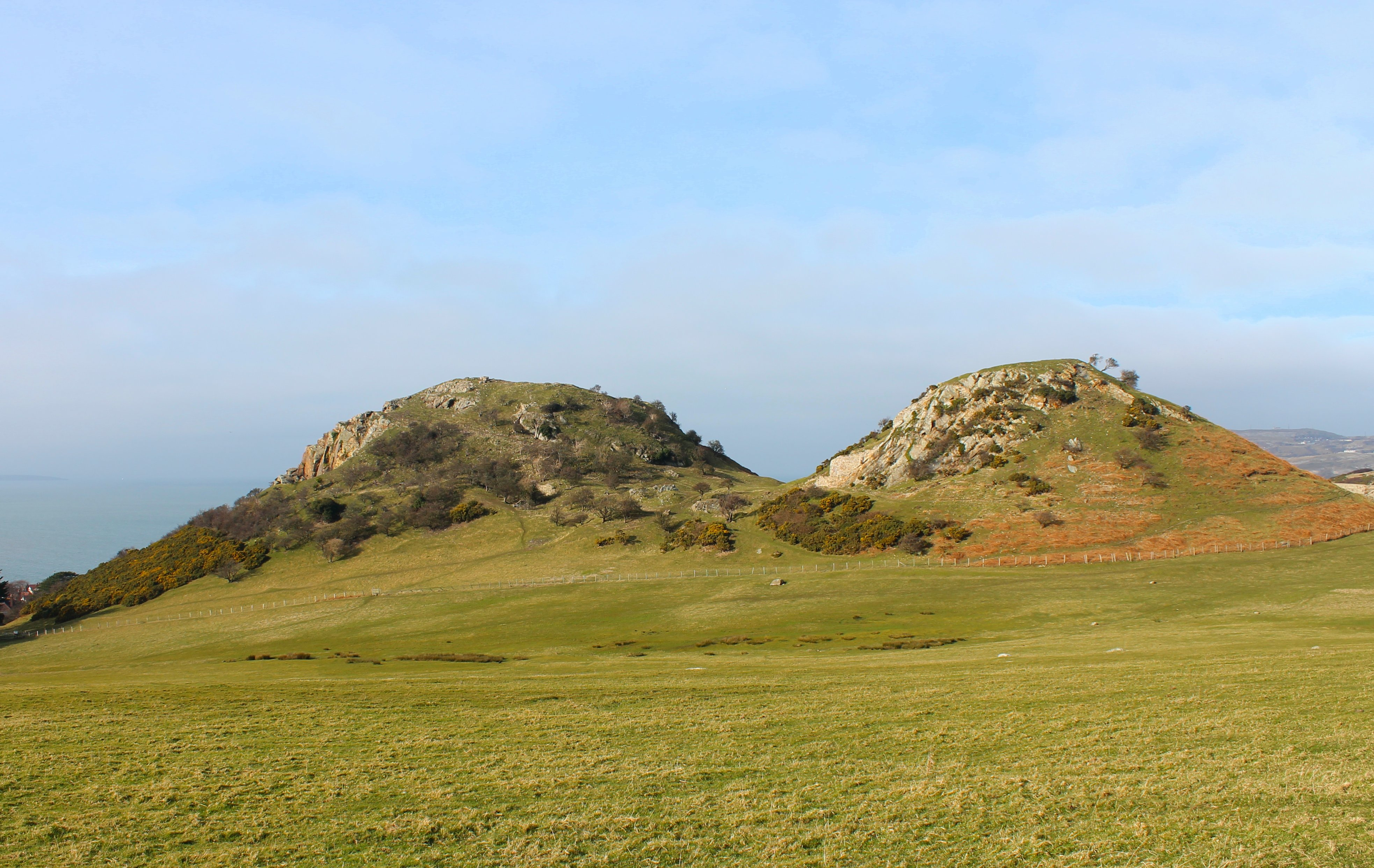 Castell Deganwy Castle (Welsh: Caer Ddegannwy; Modern Welsh: Castell Degannwy) was an early stronghold of Gwynedd and lies in Deganwy at the mouth of the River Conwy in Conwy, North Wales.